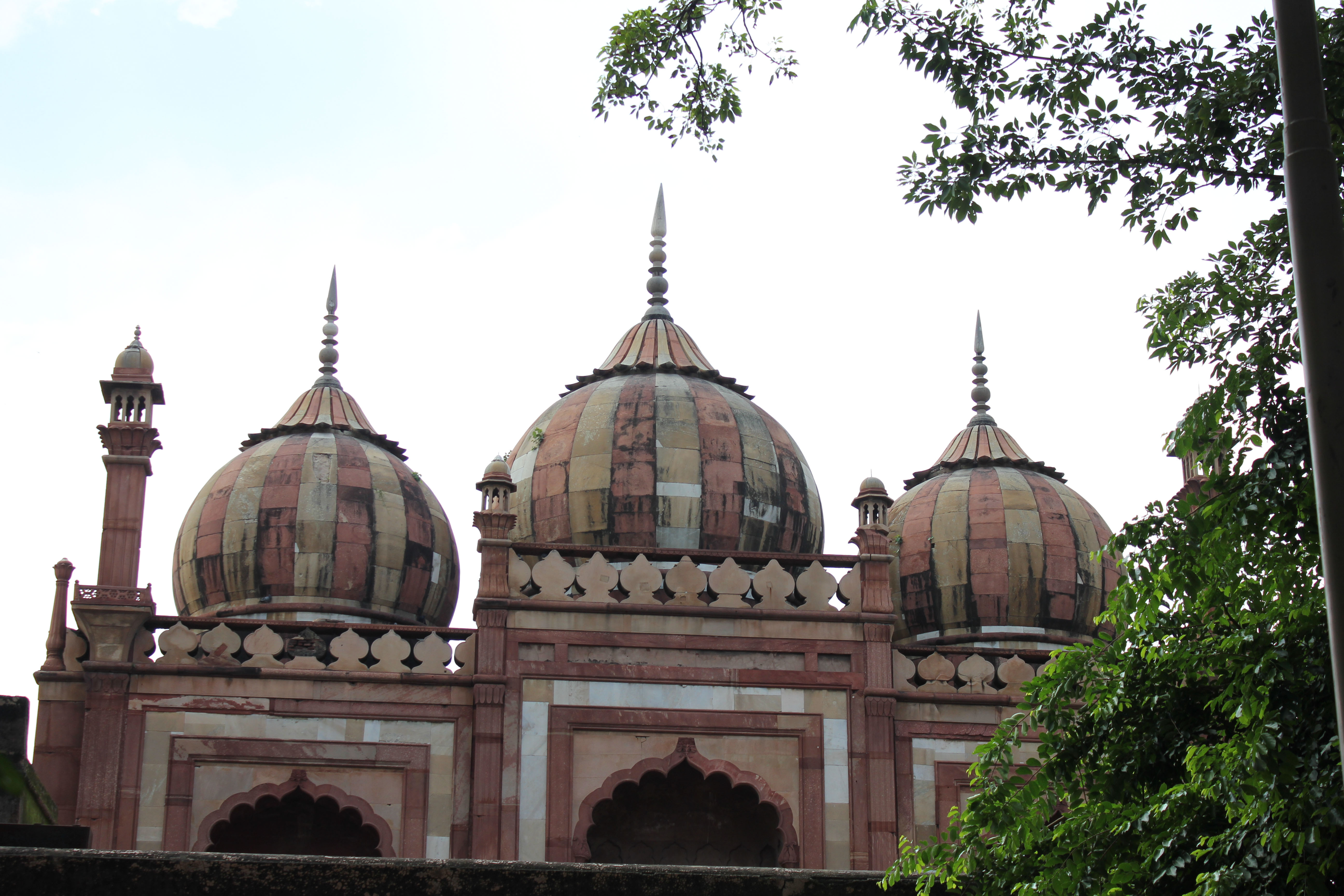 These are the three domes on top of the Mosque located on the eastern side of the monument.